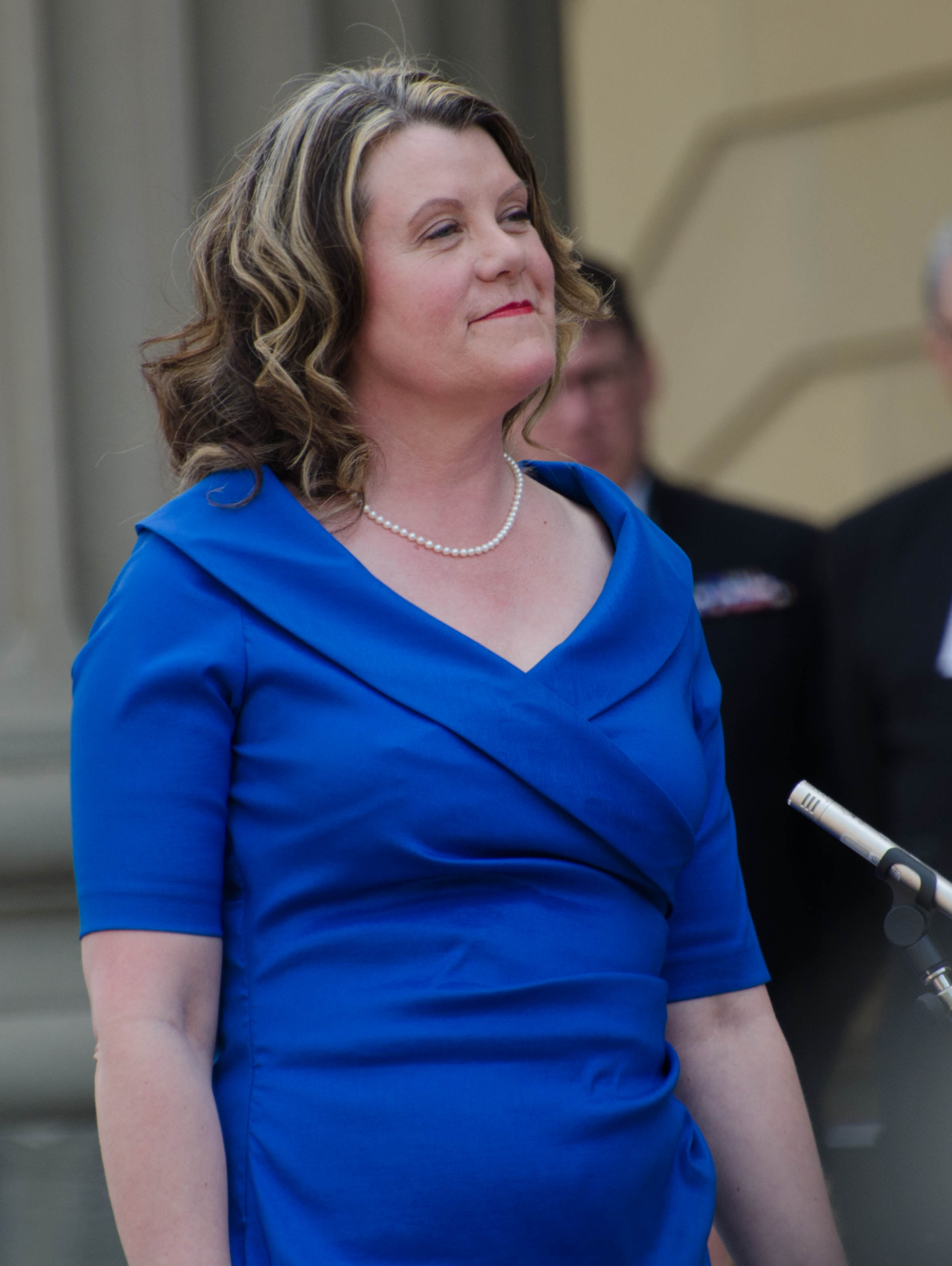 Lori Sigurdson at the 2015 Alberta Premier/Cabinet swearing-in ceremony, by Connor Mah.